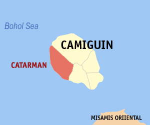 Map of Camiguin showing the location of Catarman